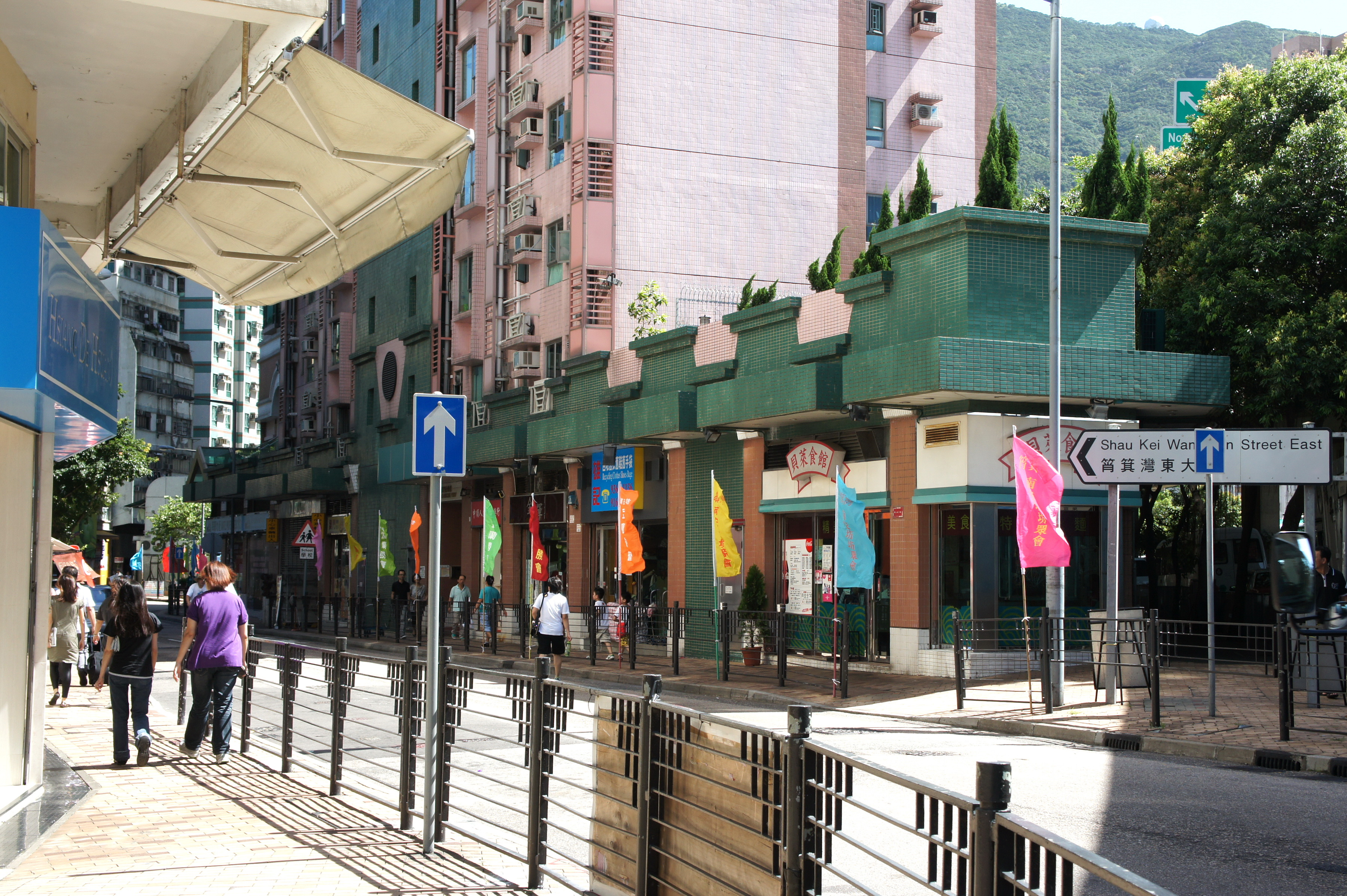 Shau Kei Wan Main Street East at the A Kung Ngam Village Road end, Hong Kong.